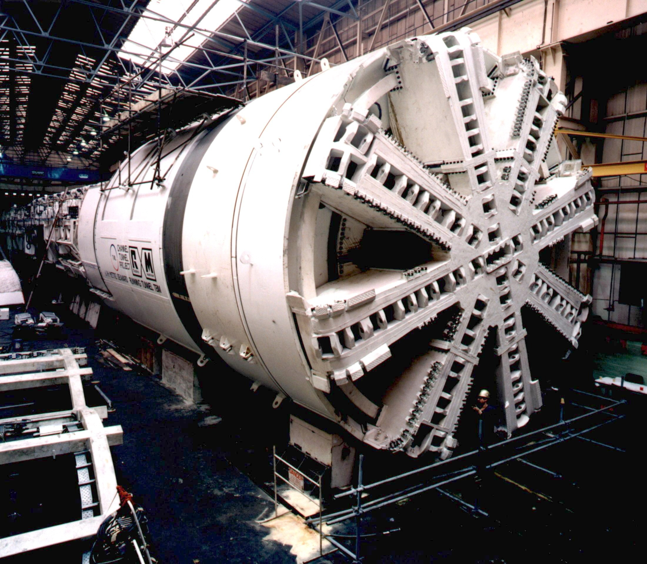 RobbinsMarkham machine in factory